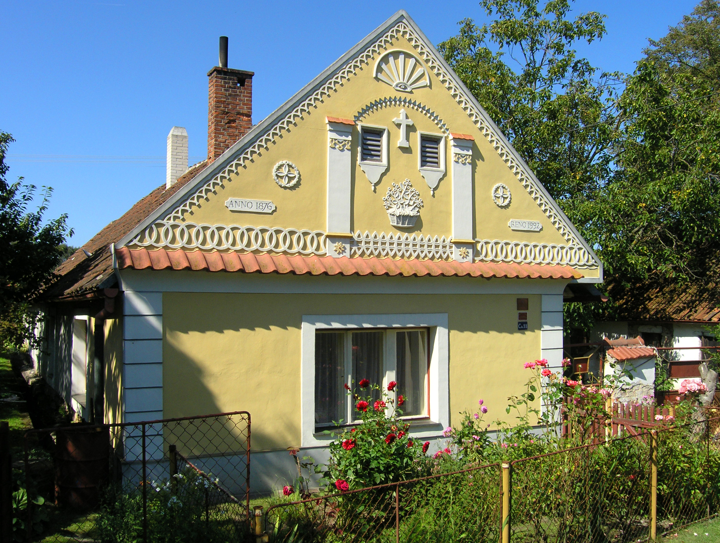 Old house in Lom village, Czech Republic. Built 1876, rebuilt 1992 by Jan Hříbek.